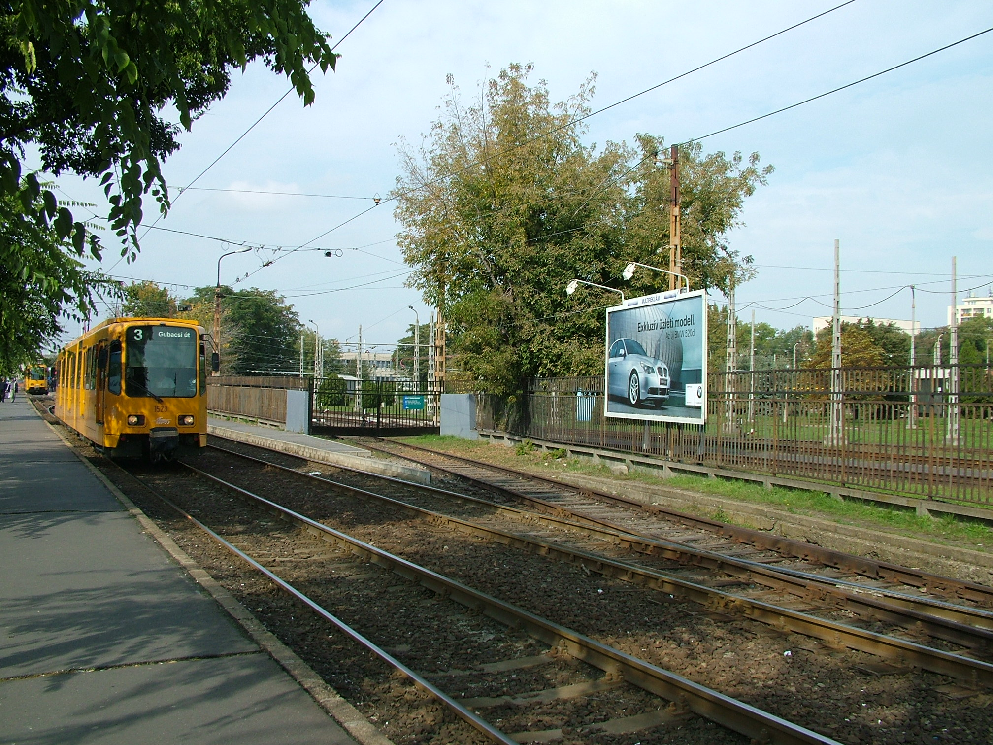 Tw6000 type tram on Budapest tramline 3See other pictures: metros.hu